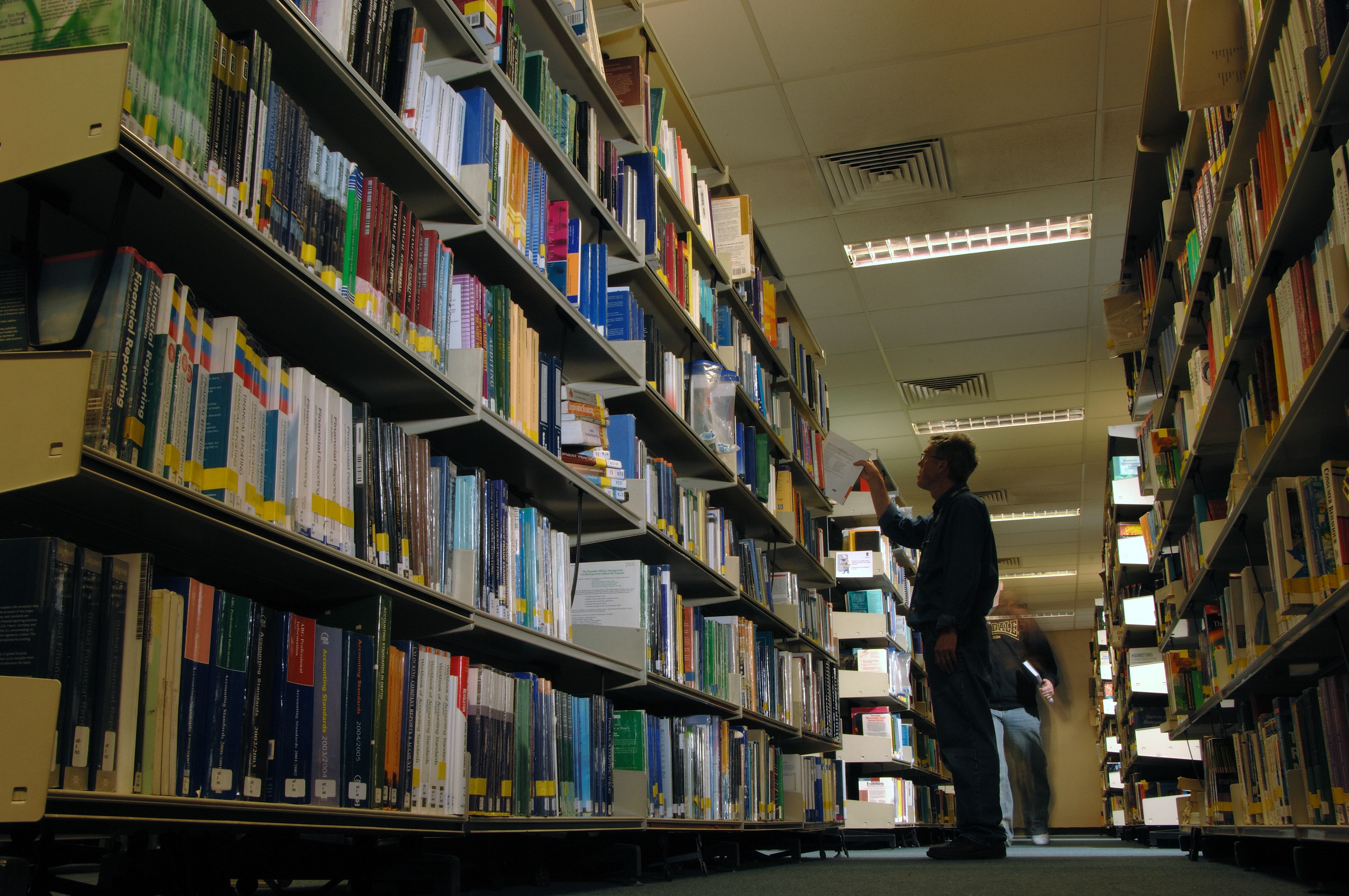 University of Bolton- Library Books Aisle with Man Low Viewpoint